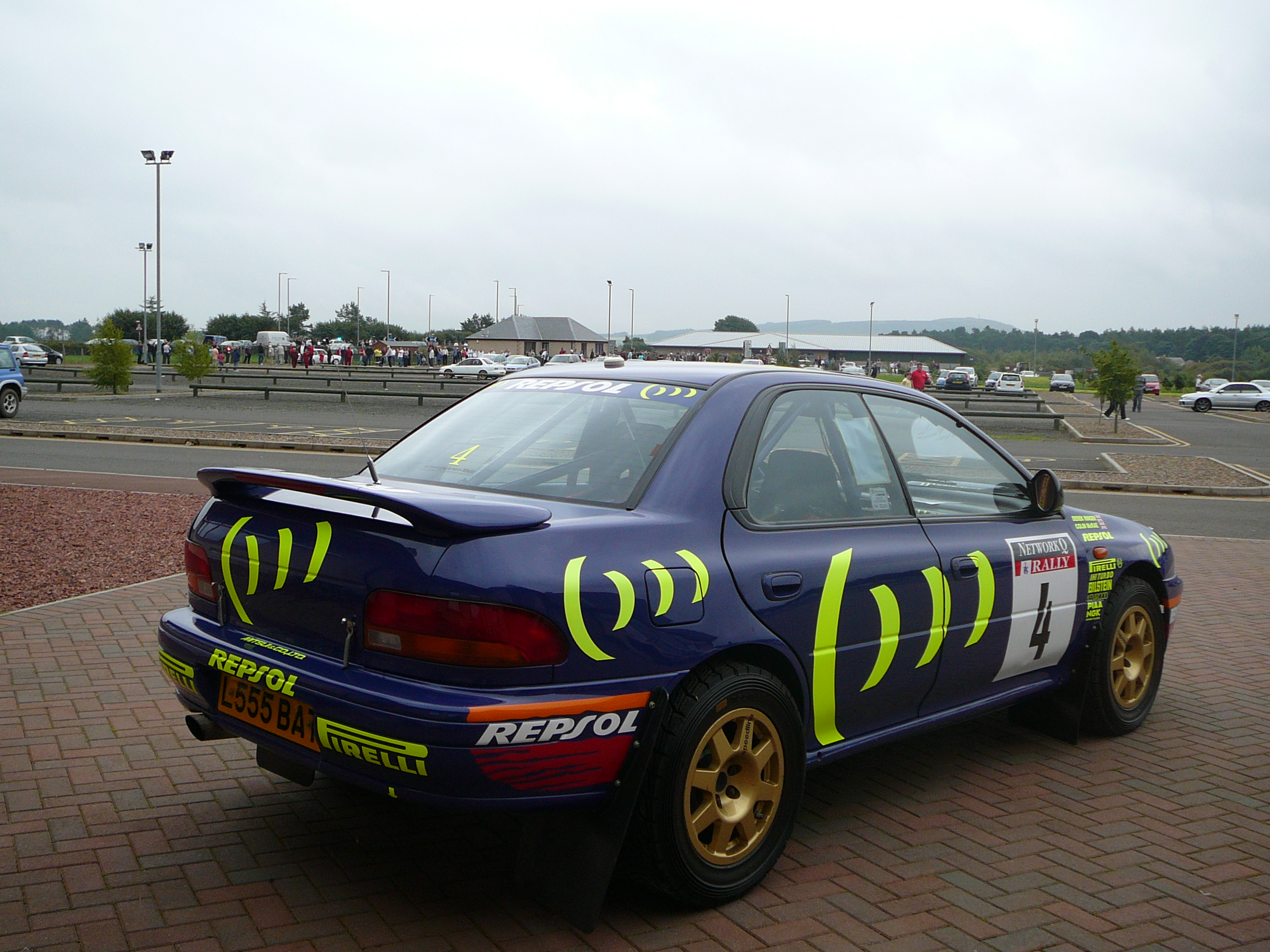 Colin McRae's 1995 World Championship winning Subaru Impreza